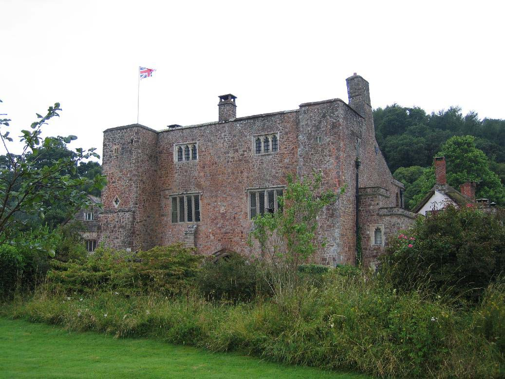 The medieval keep of Bickleigh Castle, Bickleigh, near Tiverton, Devon, England.